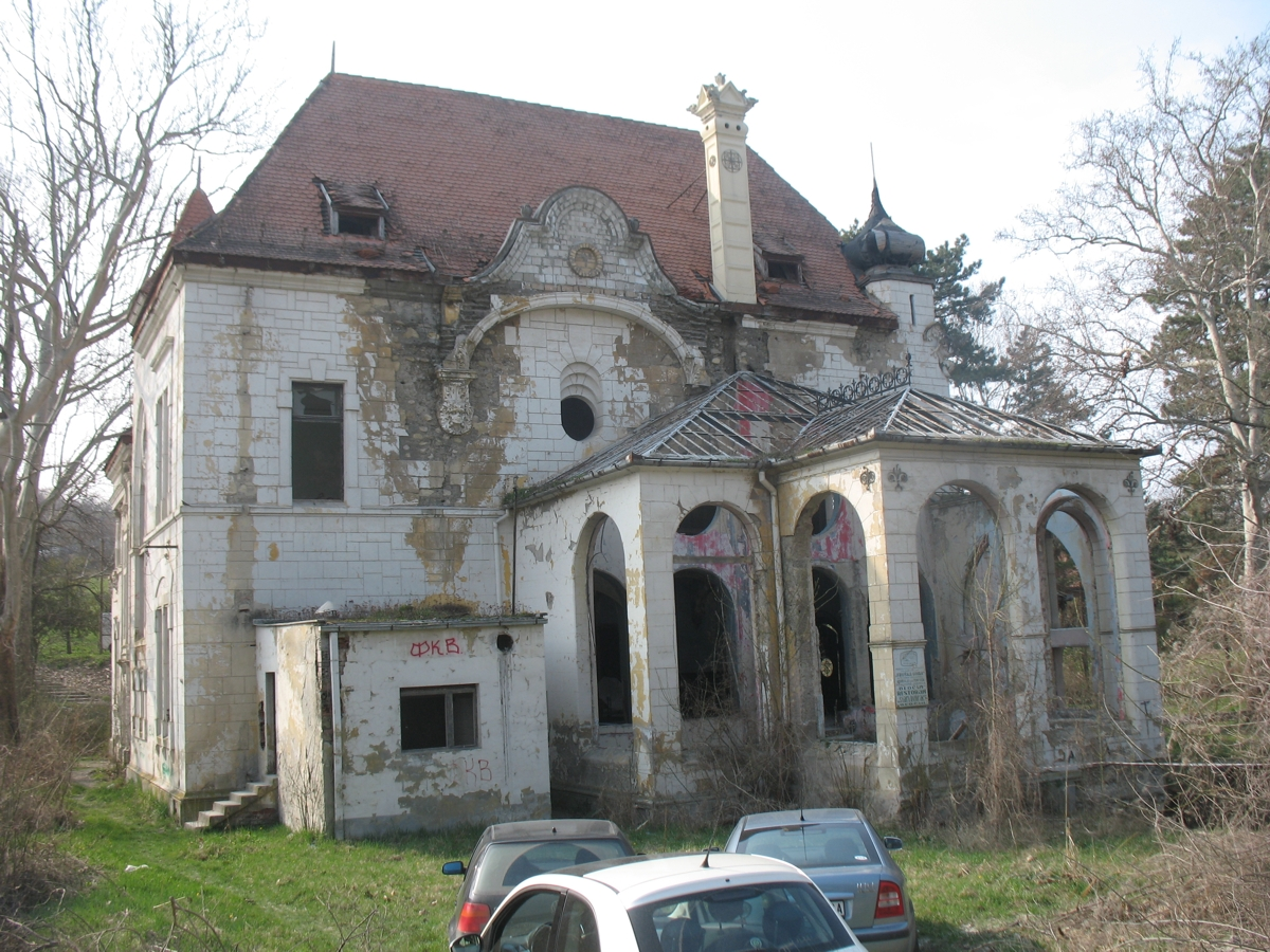 East facade of Špicer Castle in Beočin,Serbia.